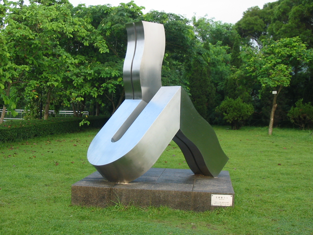 The "Glorious United Man" sculpture of United College, CUHK.